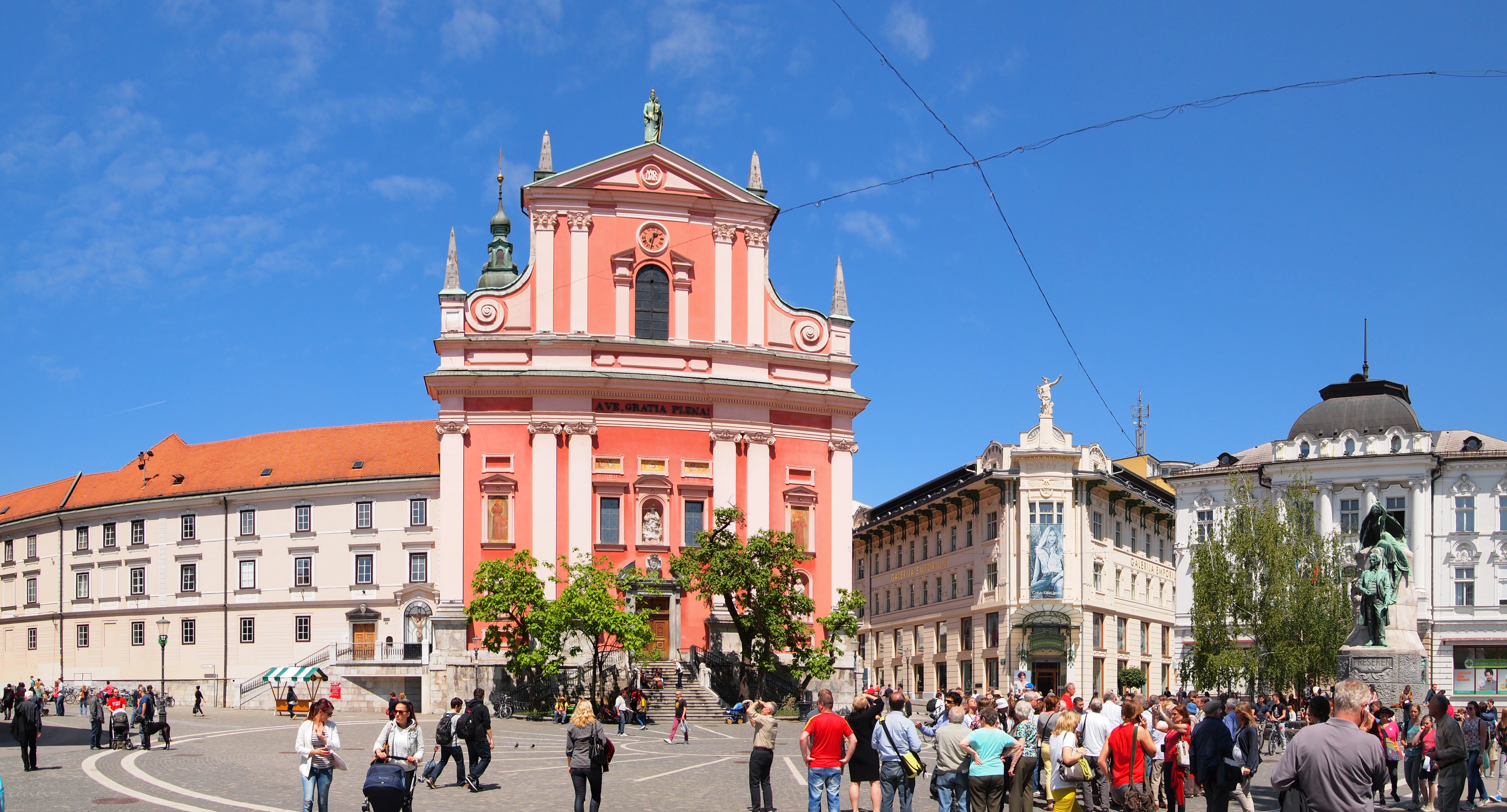 Prešeren Square, Ljubljana. This photograph was taken with an Olympus E-PL1